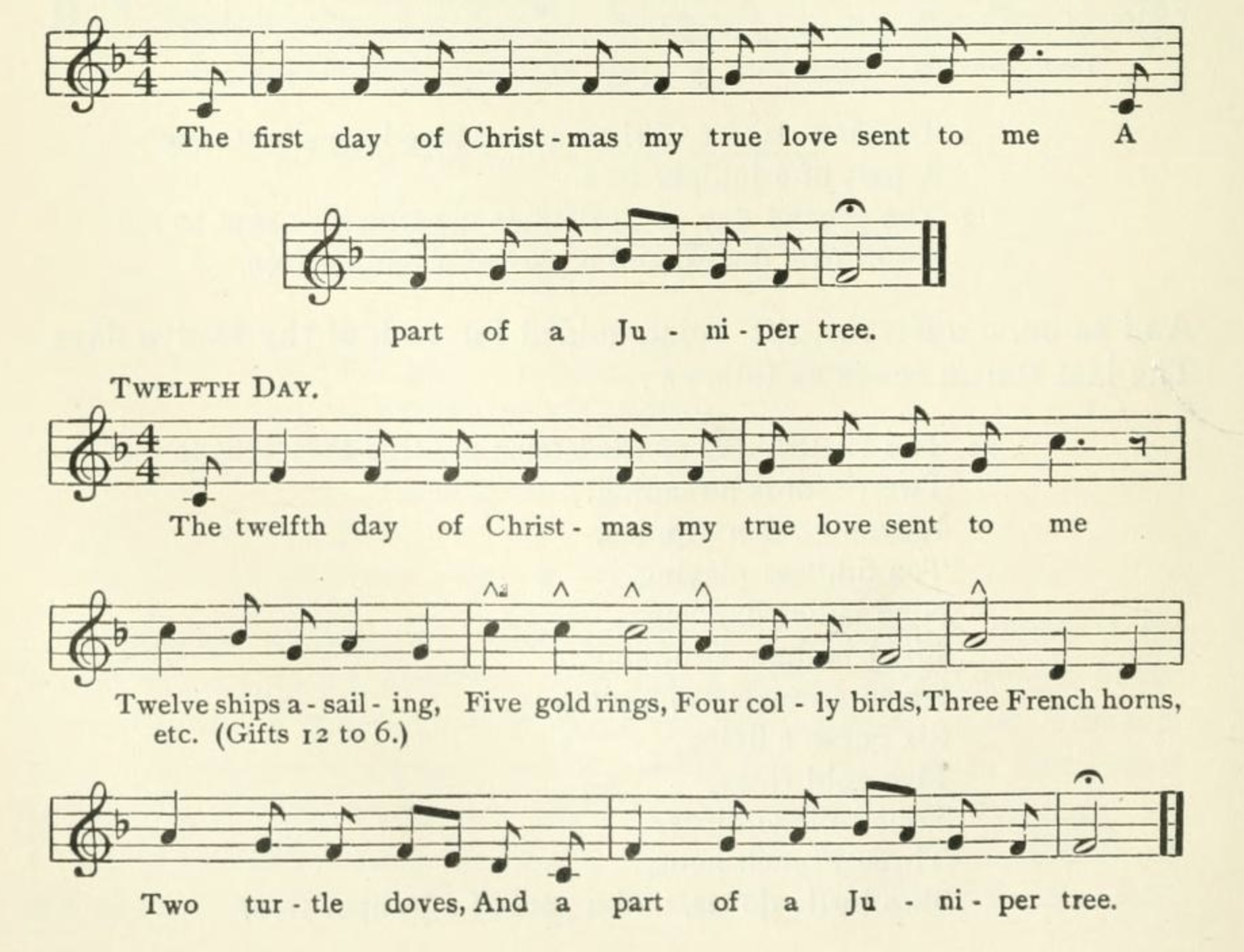 Melody of "The Twelve Days of Christmas", "recorded about 1875 by a lady of Providence, RI, from the singing of an aged man."